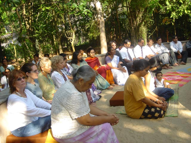 Today at Sarvodaya's Early Morning meditation